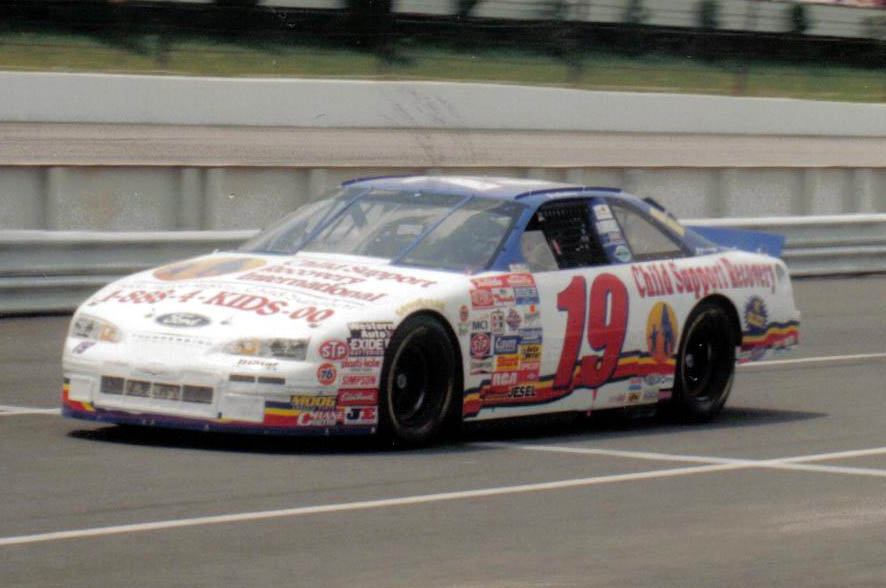 NASCAR driver Gary Bradberry at Pocono in 1997.